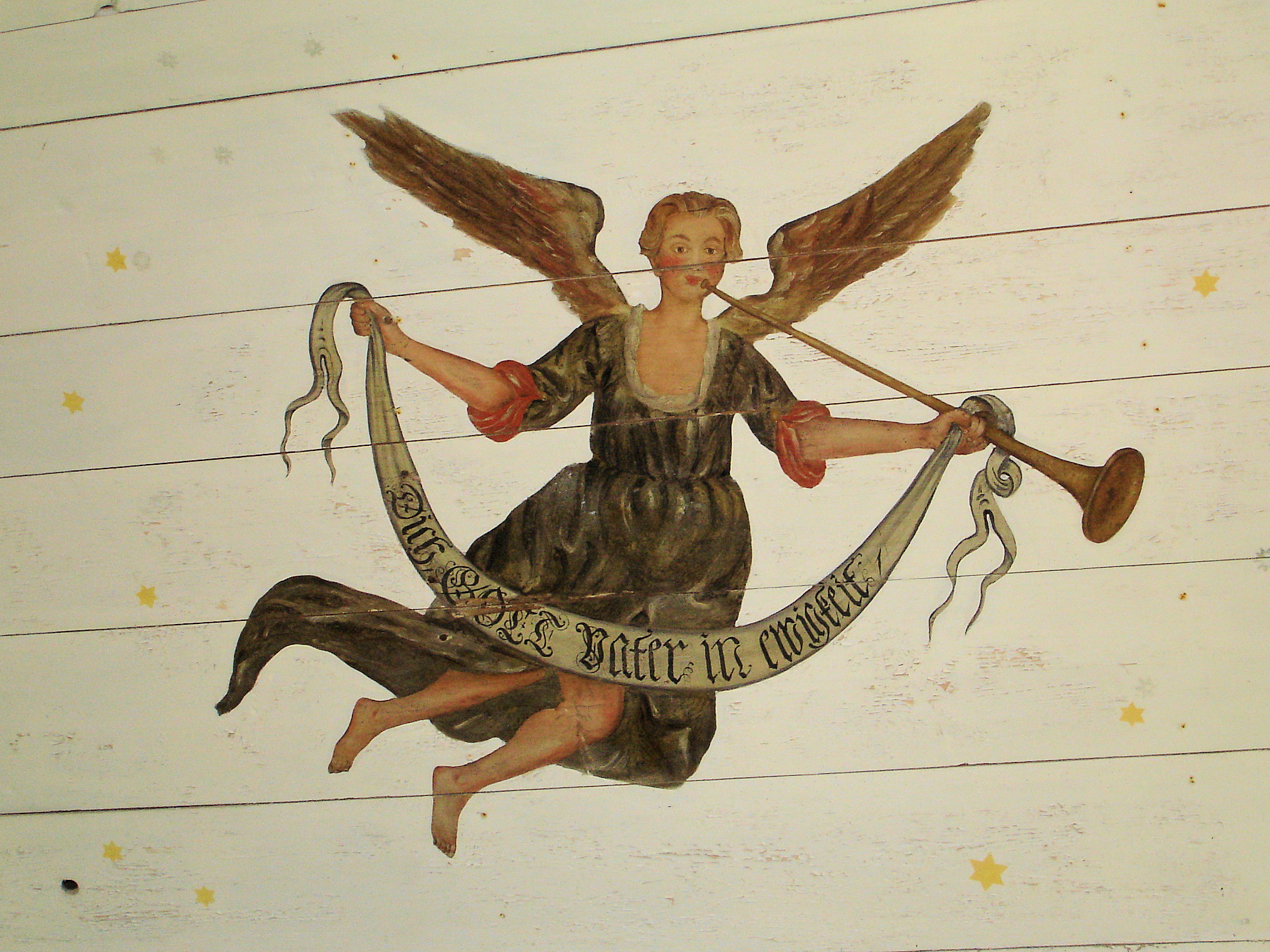 Fresco of the church in Lärz, Mecklenburg, Germany